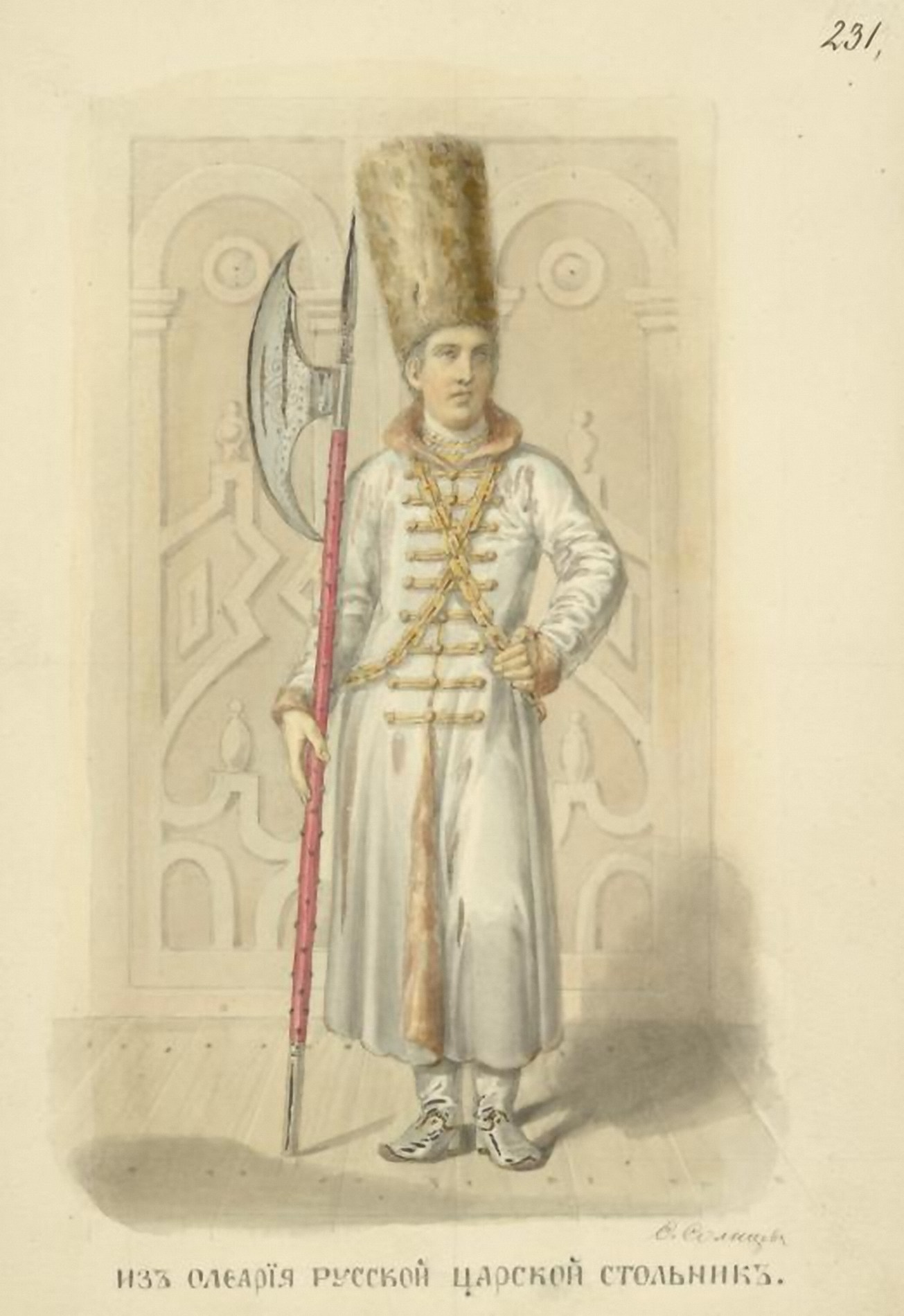 A Russian Stolnik based on Olearius' publication.